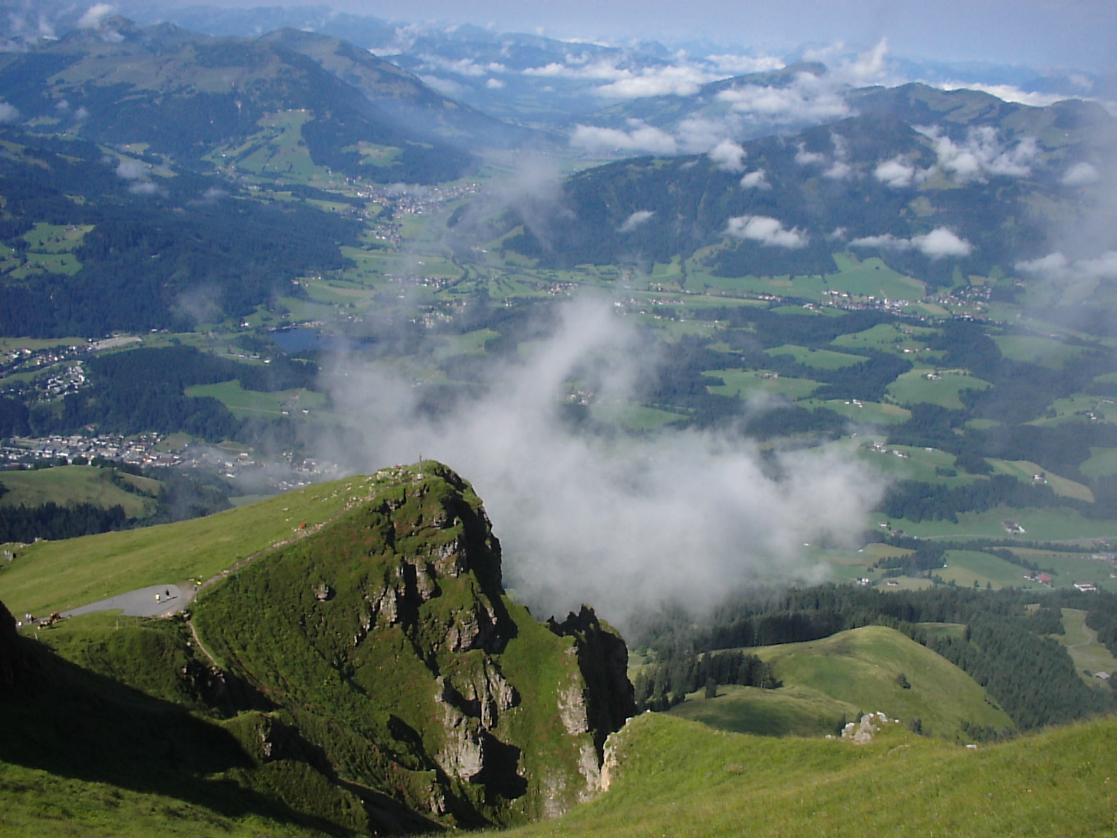 View from the top of the Kitzbüheler Horn mountain, looking down toward the town of Kitzbühel, in the far left of the picture, and lake Schwarzsee middle left.